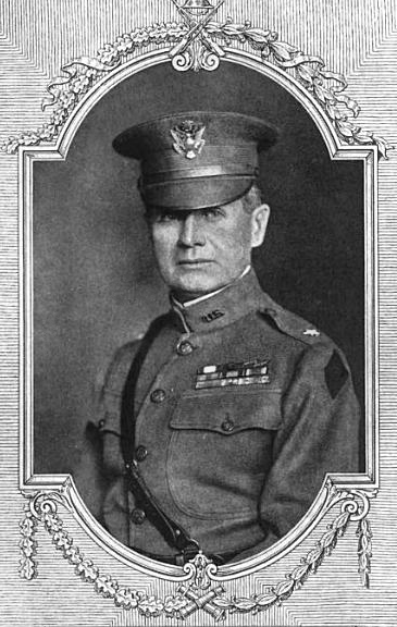 Brigadier General Paul B. Malone, Commanding the Tenth Infantry Brigade from August 29, 1918, to March 1, 1919. Photo by Harris and Ewing.